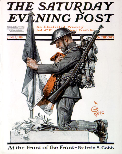 French Soldier’s Grave. Saturday Evening Post cover, June 1, 1918.